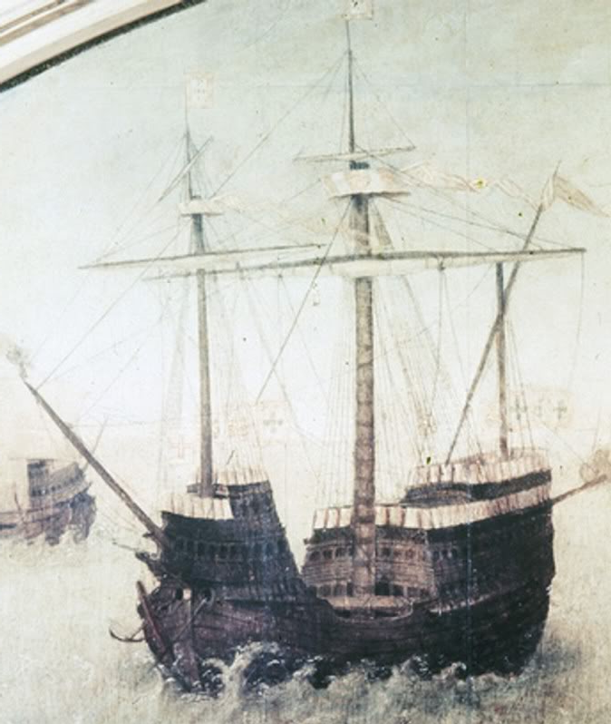 Detail of an early 16th century Portuguese carrack ("nau"), present in the Retábulo de Santa Auta polyptych, now in the Portuguese National Museum of Ancient Art in Lisbon